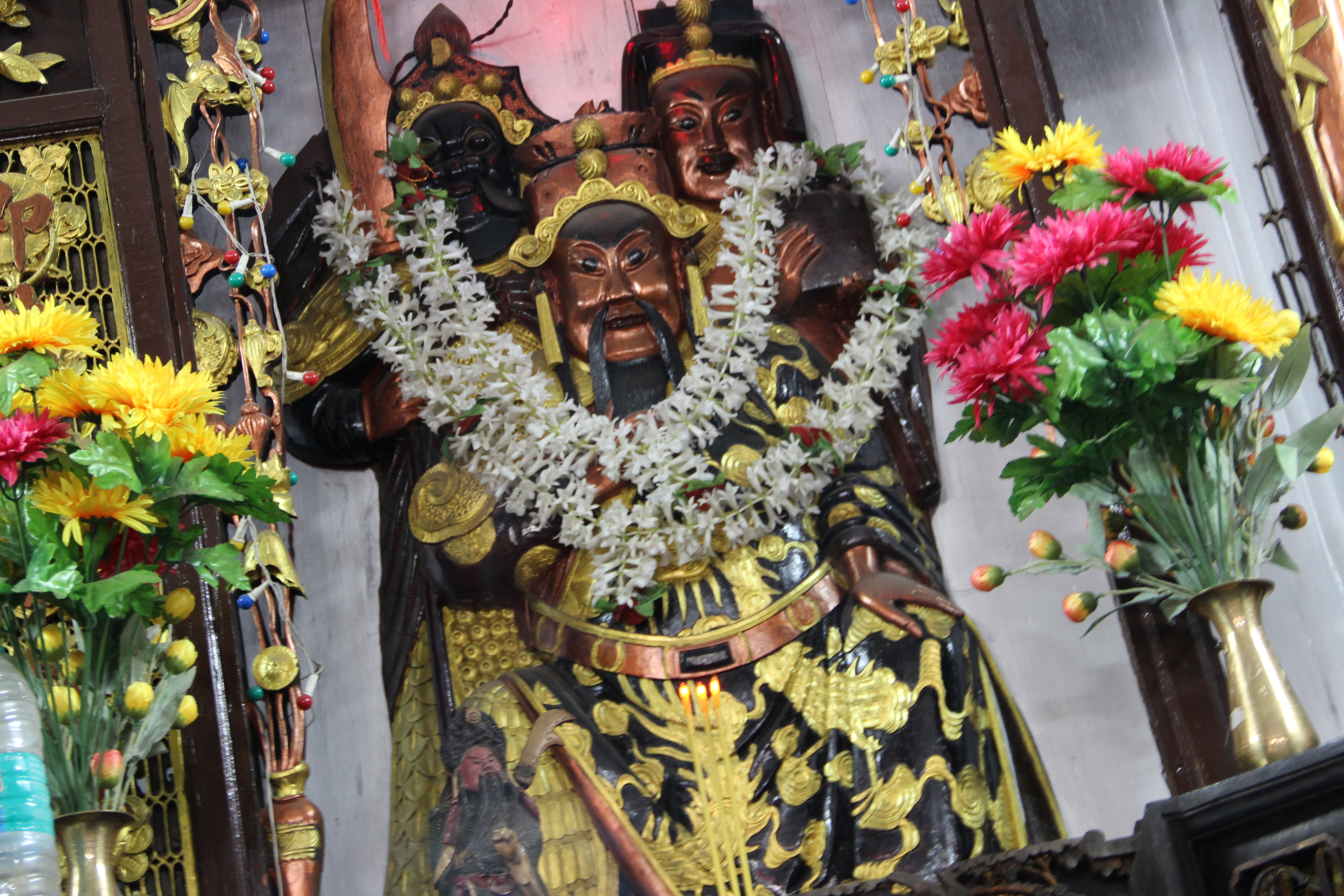 The God